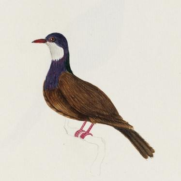 Lord Howe Pigeon (Columba vitiensis godmanae) from album of watercolour drawings of Australian natural history owned by Robert Anderson Seton, (ca.1800).